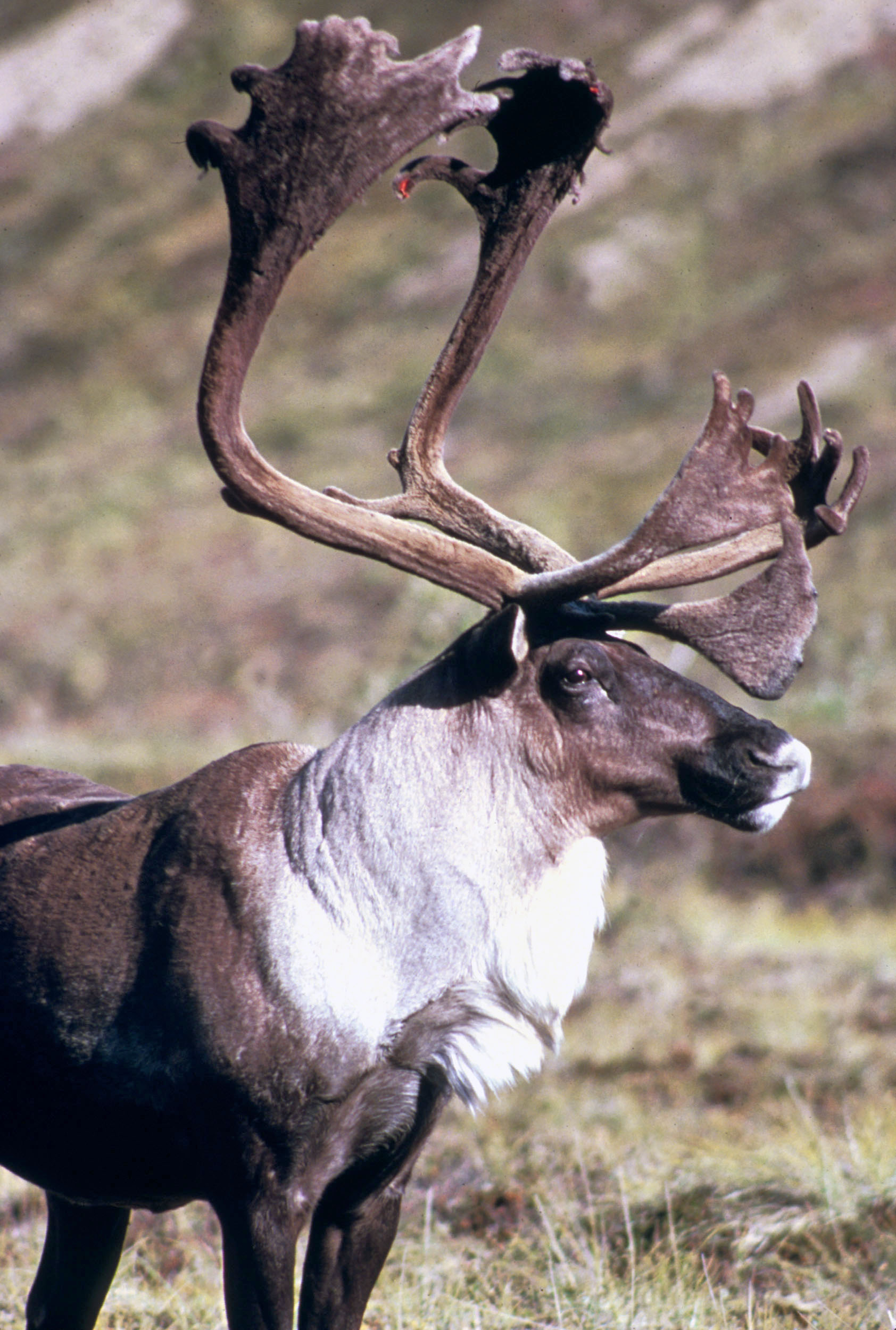 Caribou, Reindeer in Alaska